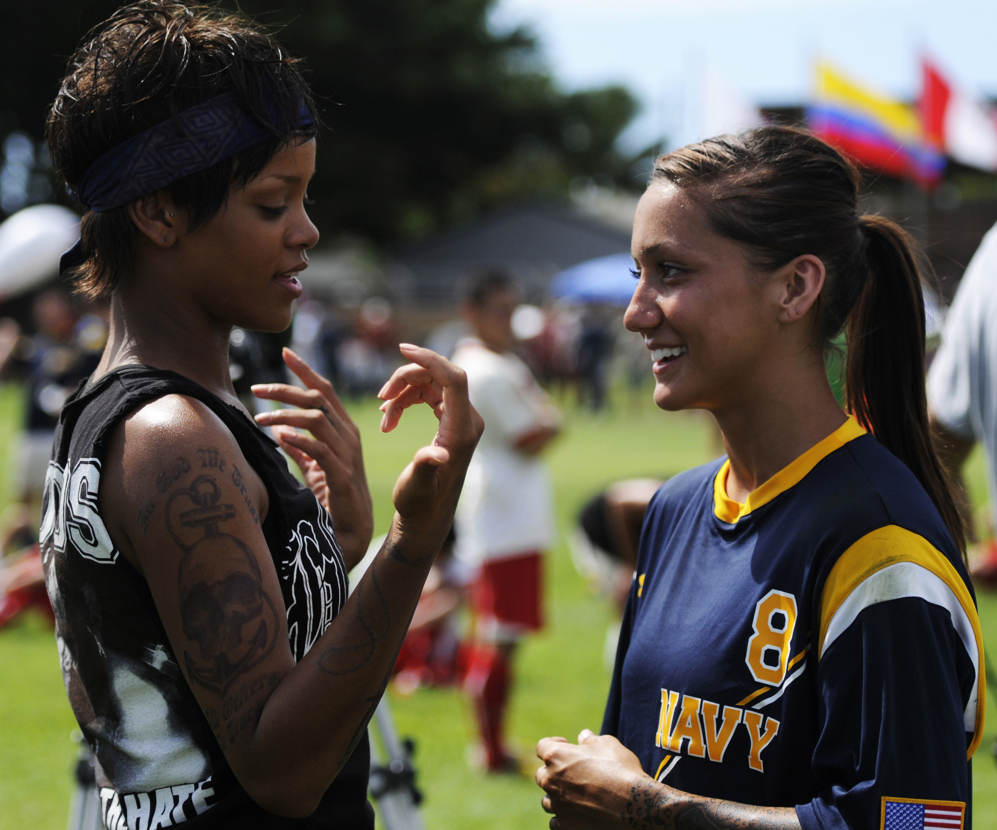 U.S. Navy Gunner's Mate Jacqueline Carrizosa, right, assigned to the aircraft carrier USS Ronald Reagan (CVN 76) chats with singer and actress Rihanna, at Joint Base Pearl Harbor-Hickam, Hawaii, Sept. 14, 2010. Carrizosa is part of the movie "Battleship" as an extra and military technical adviser for Rihanna. Universal Pictures worked with the U.S. Navy in filming of "Battleship" at Joint Base Pearl Harbor-Hickam. The movie released May 18, 2012. (U.S. Navy photo by Mass Communication Specialist 2nd Class Mark Logico/Released)